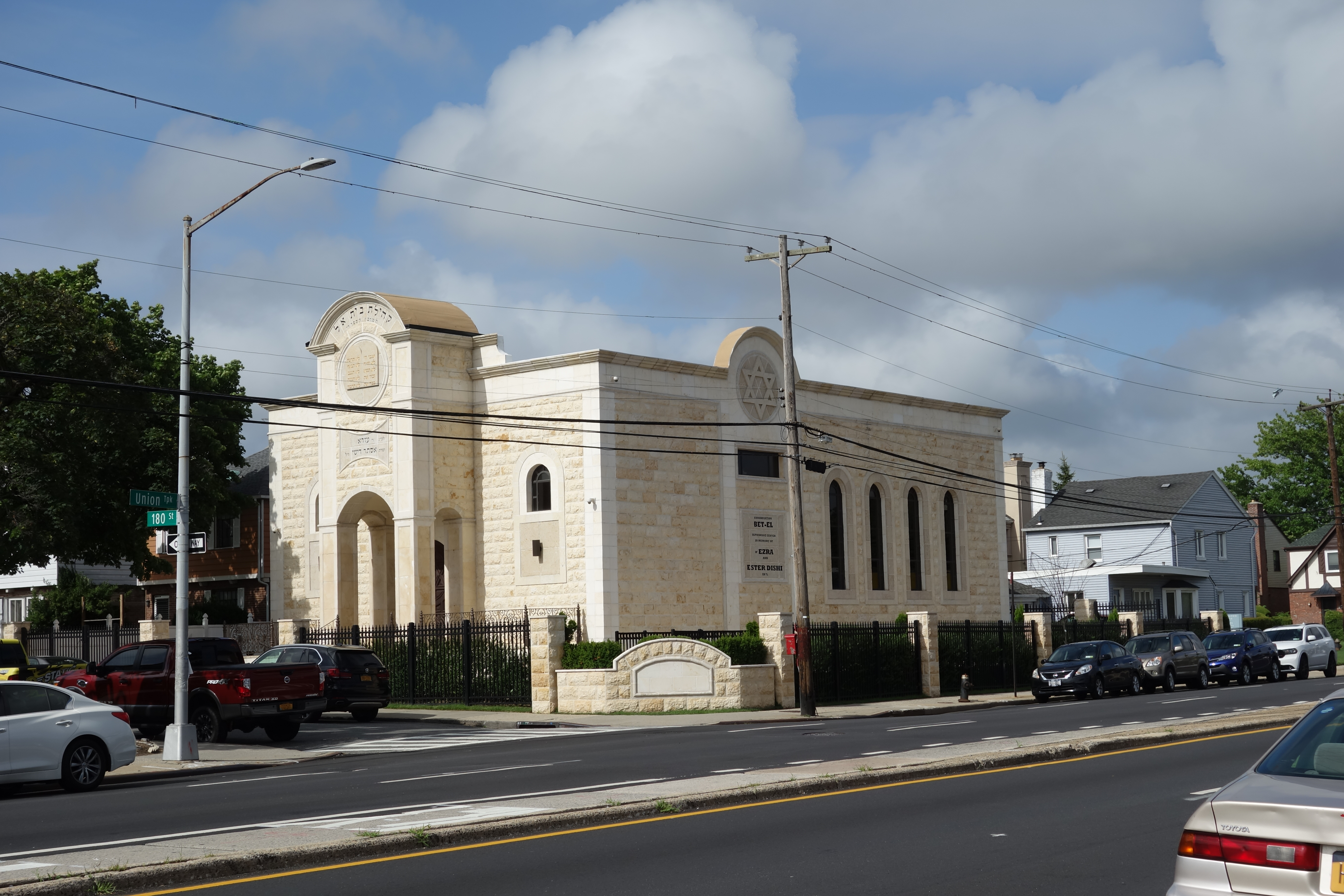 The Congregation Beth-El synagogue at Union Turnpike and 180th Street in Fresh Meadows / Jamaica Estates, Queens.